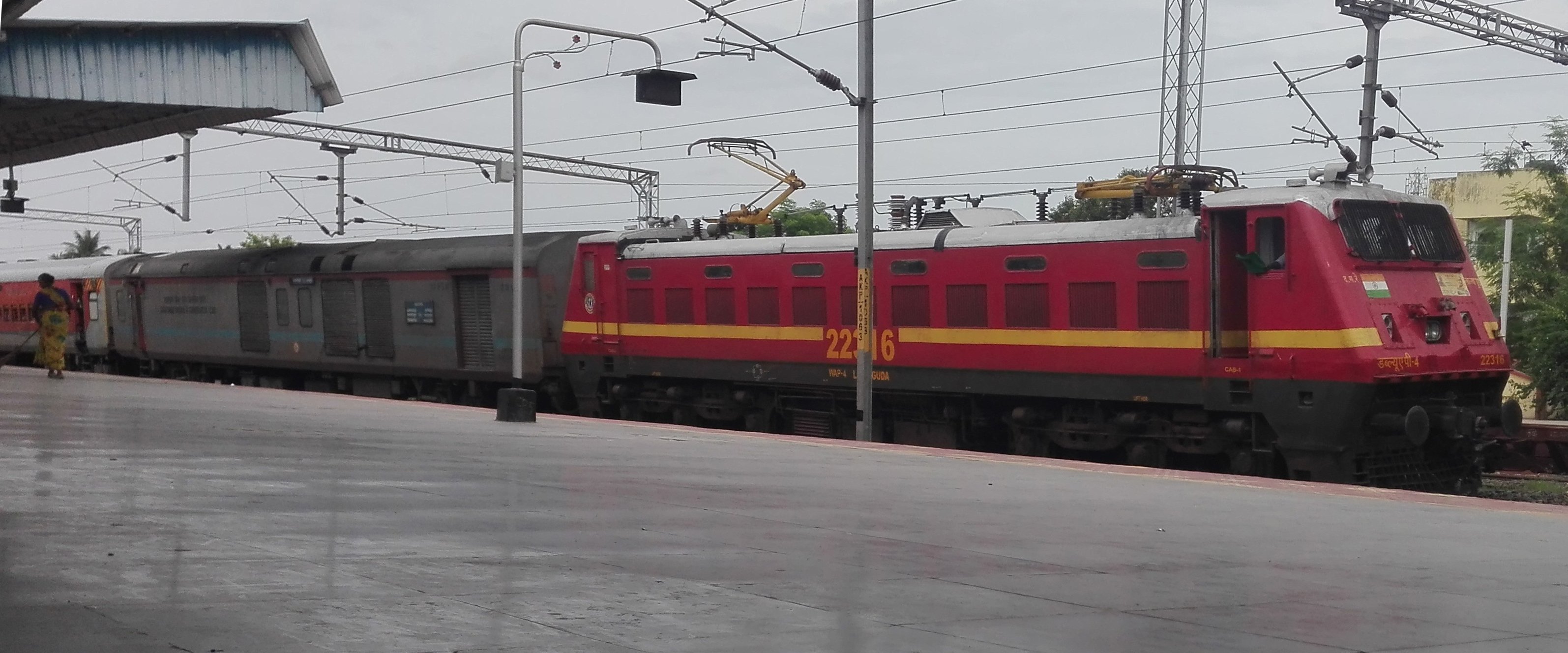 Anga Express from Bhagalpur to Yesvantpur with a WAP 4 Loco in charge crossing Anakapalle Railway station